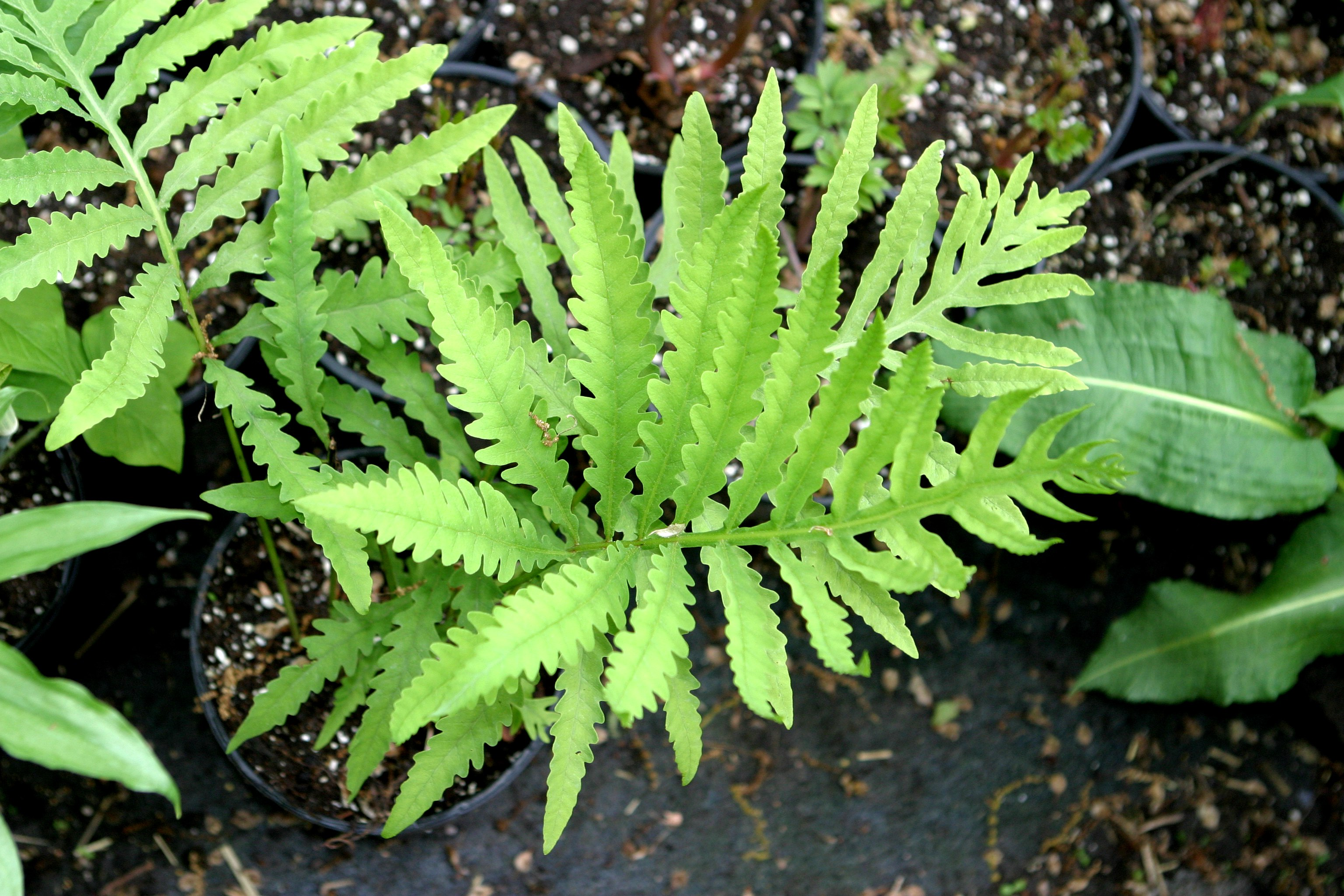 Sensitive Fern (Onoclea sensibilis) in Minnesota